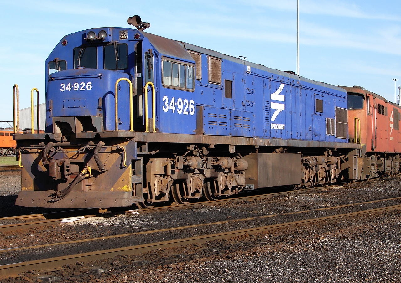 South African Class 34-900 34-926 Builder's Number: GE 41375 Type: GE U26C Location: Bellville, Cape Town, Western Cape